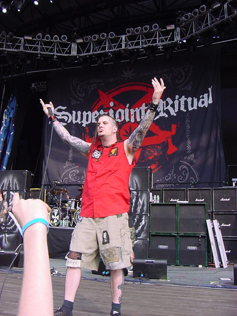 Phil Anselmo of Superjoint Ritual at Ozzfest. Jones Beach, NY. July 7, 2004